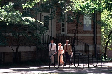 The campus of the University of North Carolina at Chapel Hill.